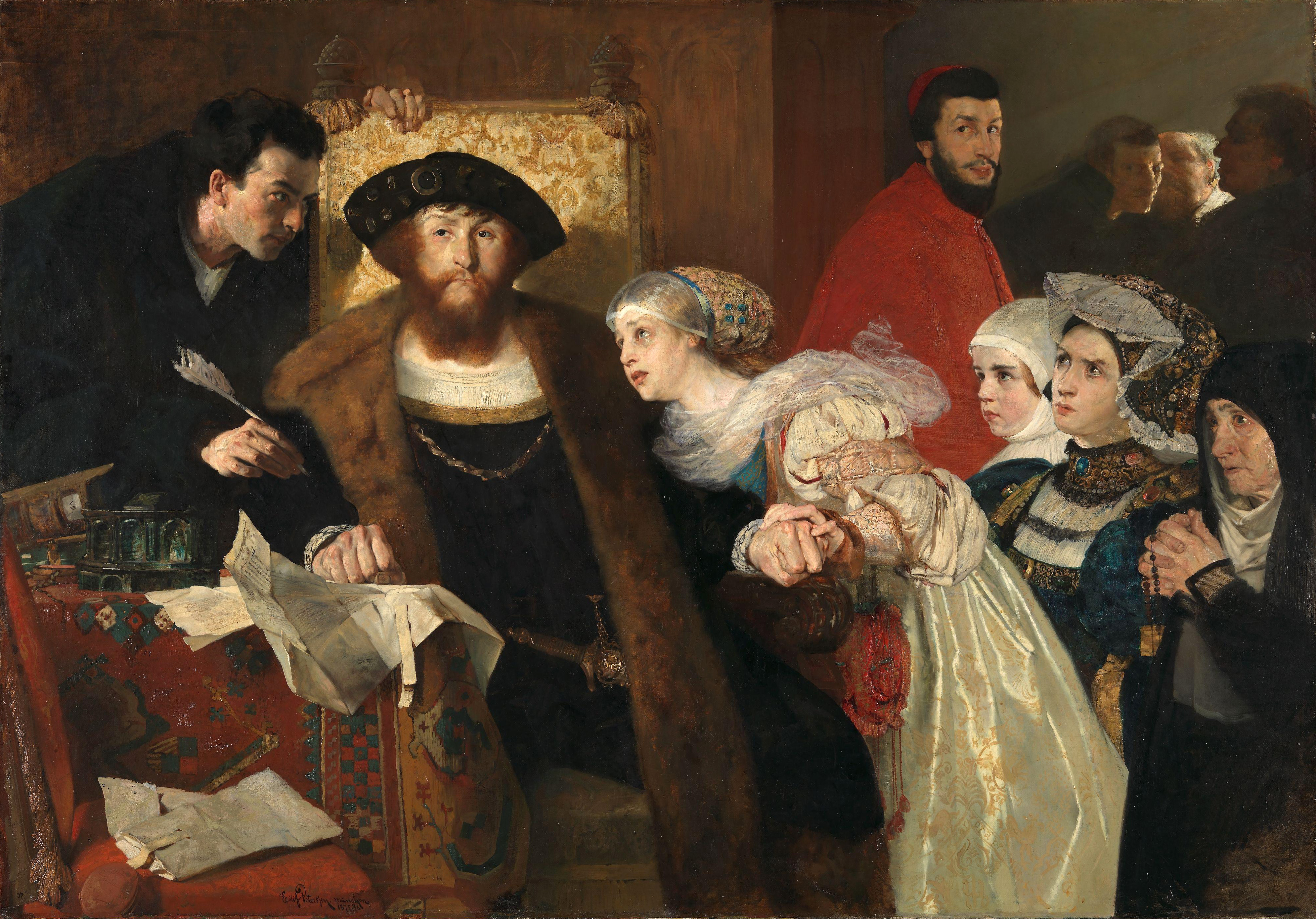 Christian II signing the Death Warrant of Torben Oxe.label QS:Len,"Christian II signing the Death Warrant of Torben Oxe." label QS:Lnb,"Christian II undertegner dødsdommen over Torben Oxe."